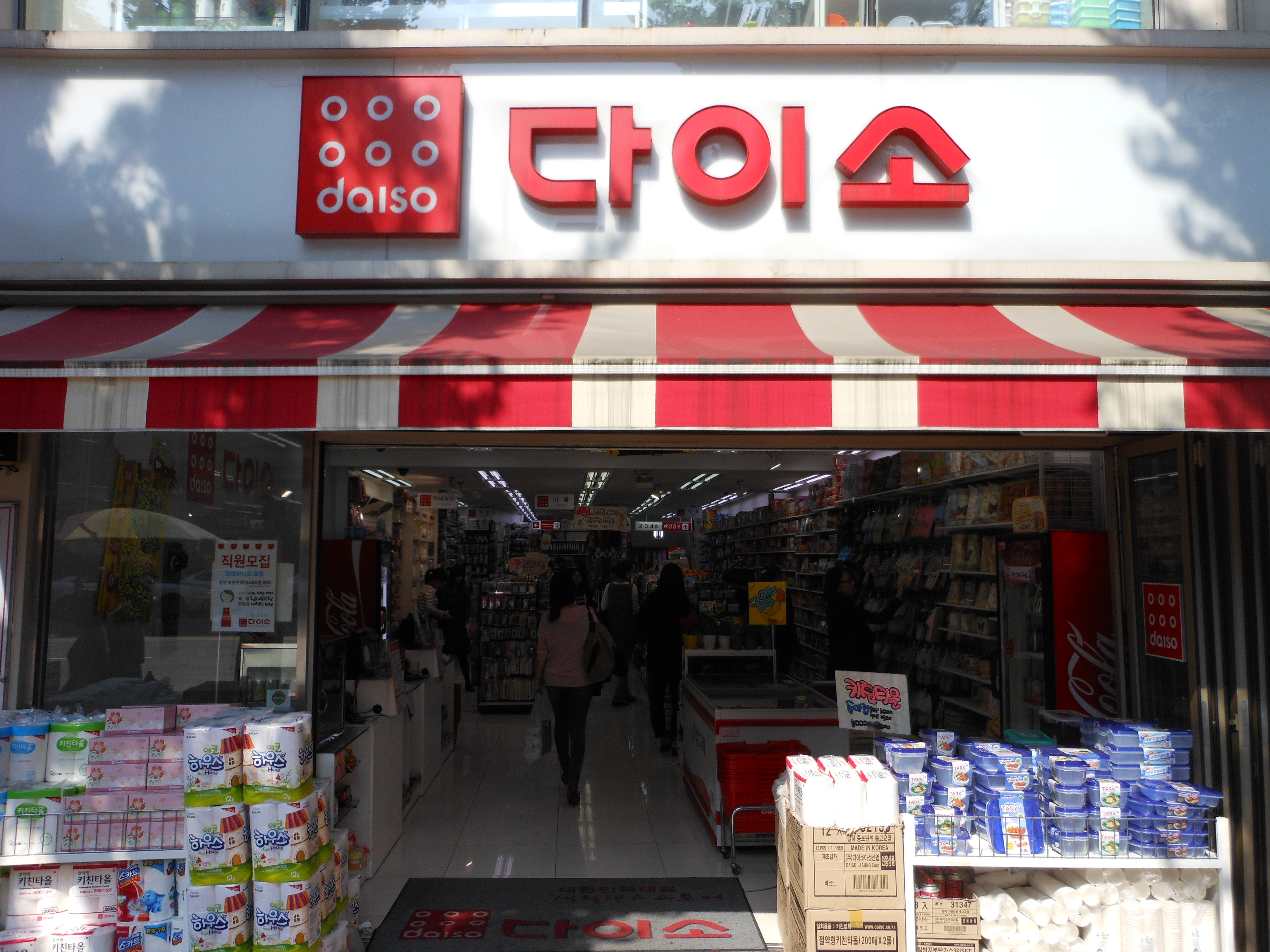 Daiso Namdaemun-ro No.1 store, 91, 3-ga Namdaemun-ro, Jung-gu, Seoul City, KOREA